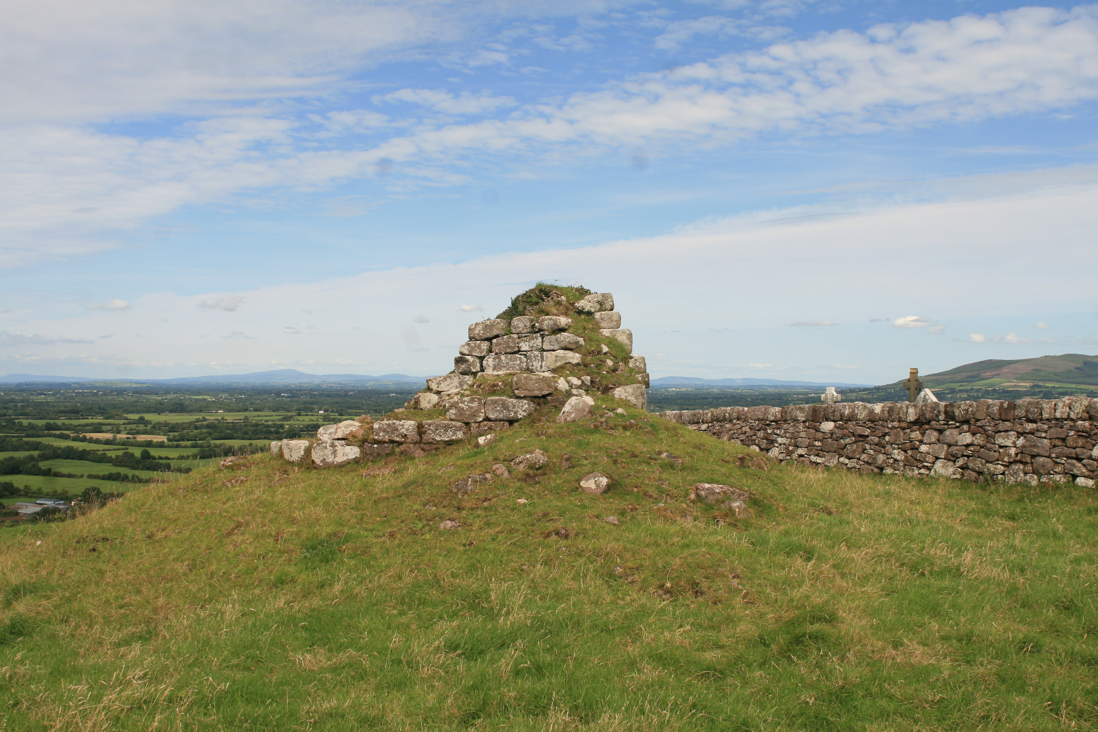 Ardpatrick, County Limerick, Ireland Ruins of roundtower at Ardpatrick